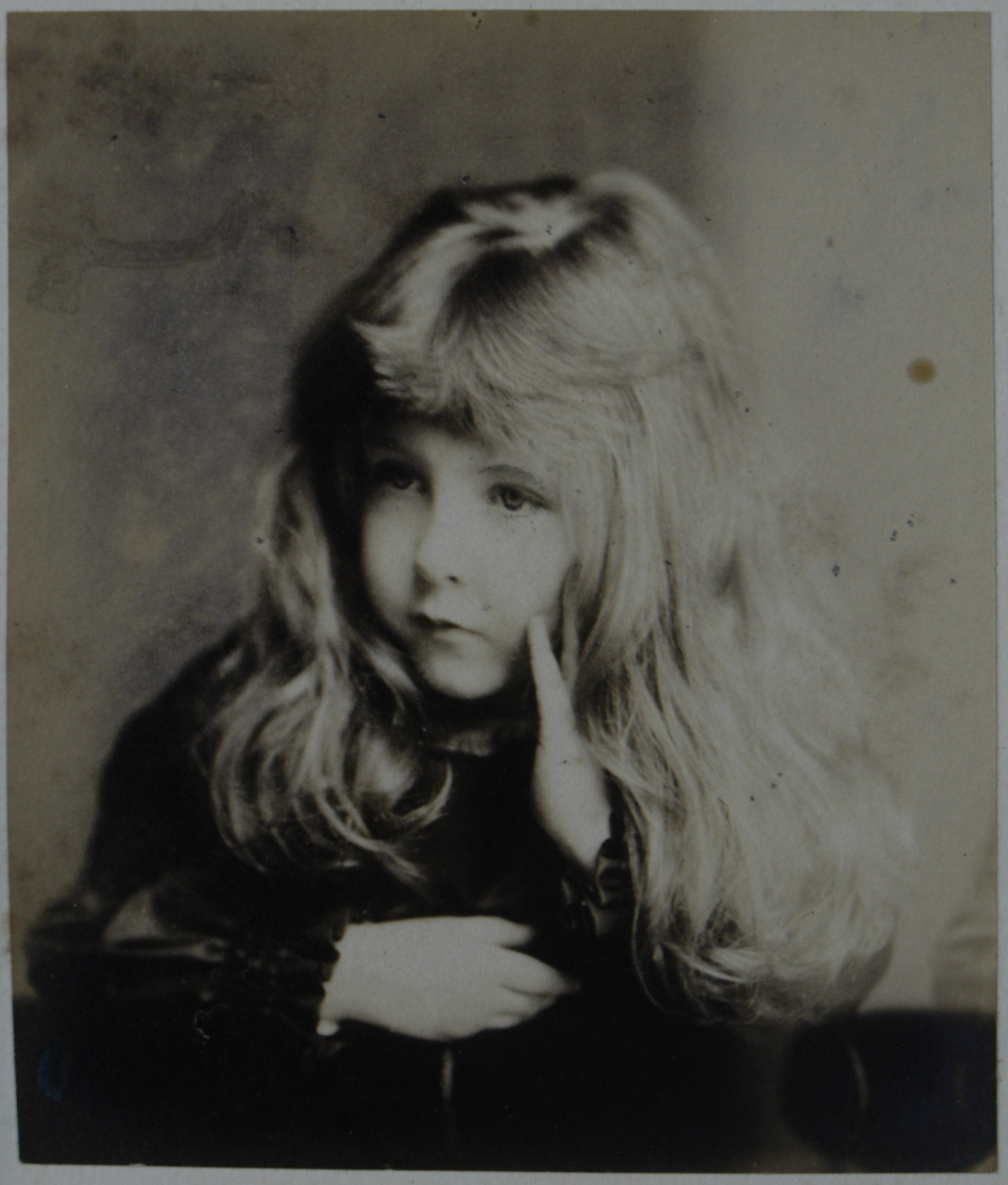 My photo (Rodolph (talk) 22:44, 11 August 2013 (UTC)) of a photo of Catherine Muriel Cowell-Stepney (Miss Alcyone Stepney), aka Lady Howard (1876–1952), in circa 1882.